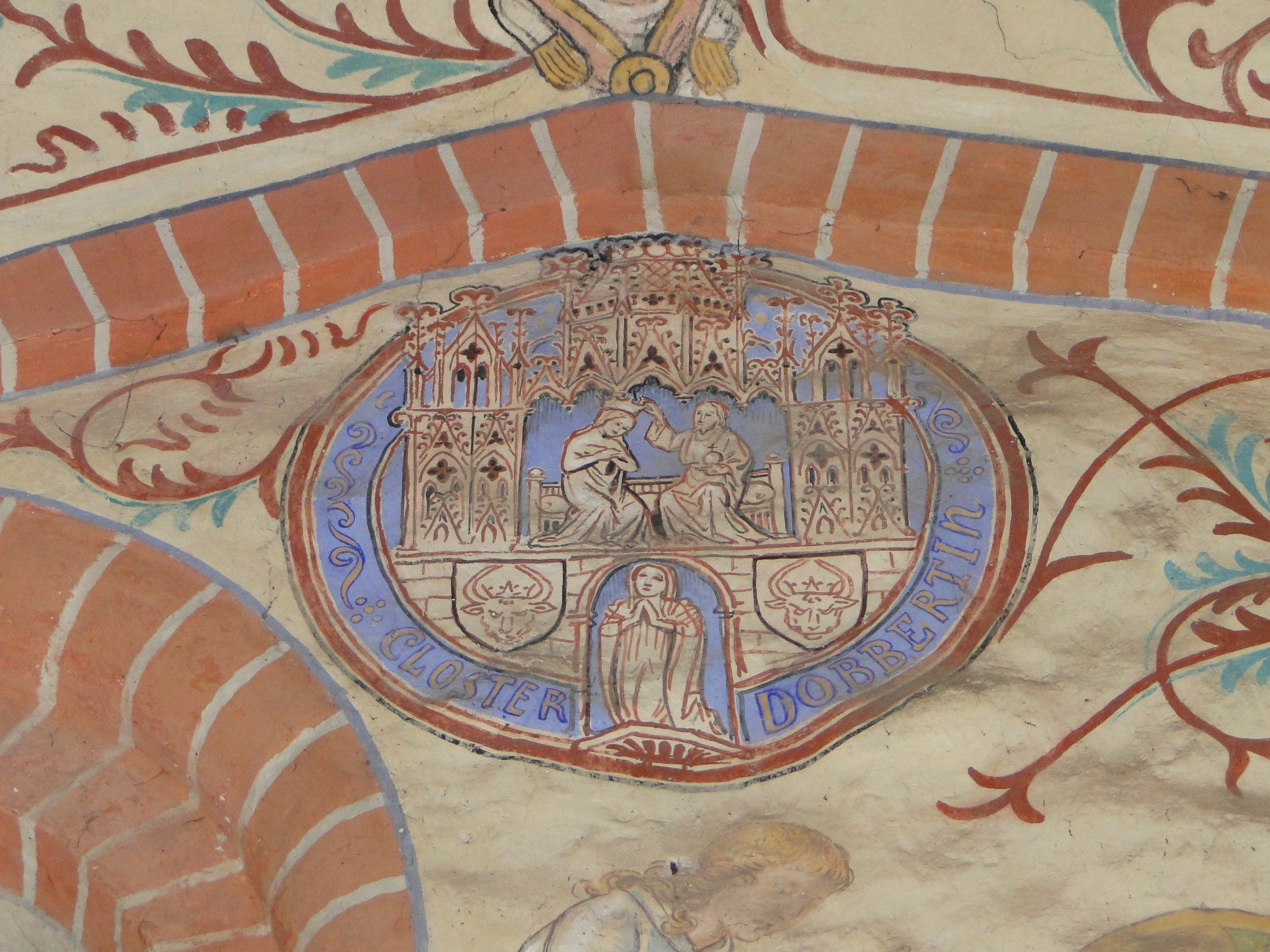 Church in Lohmen, district Güstrow, Mecklenburg-Vorpommern, Germany